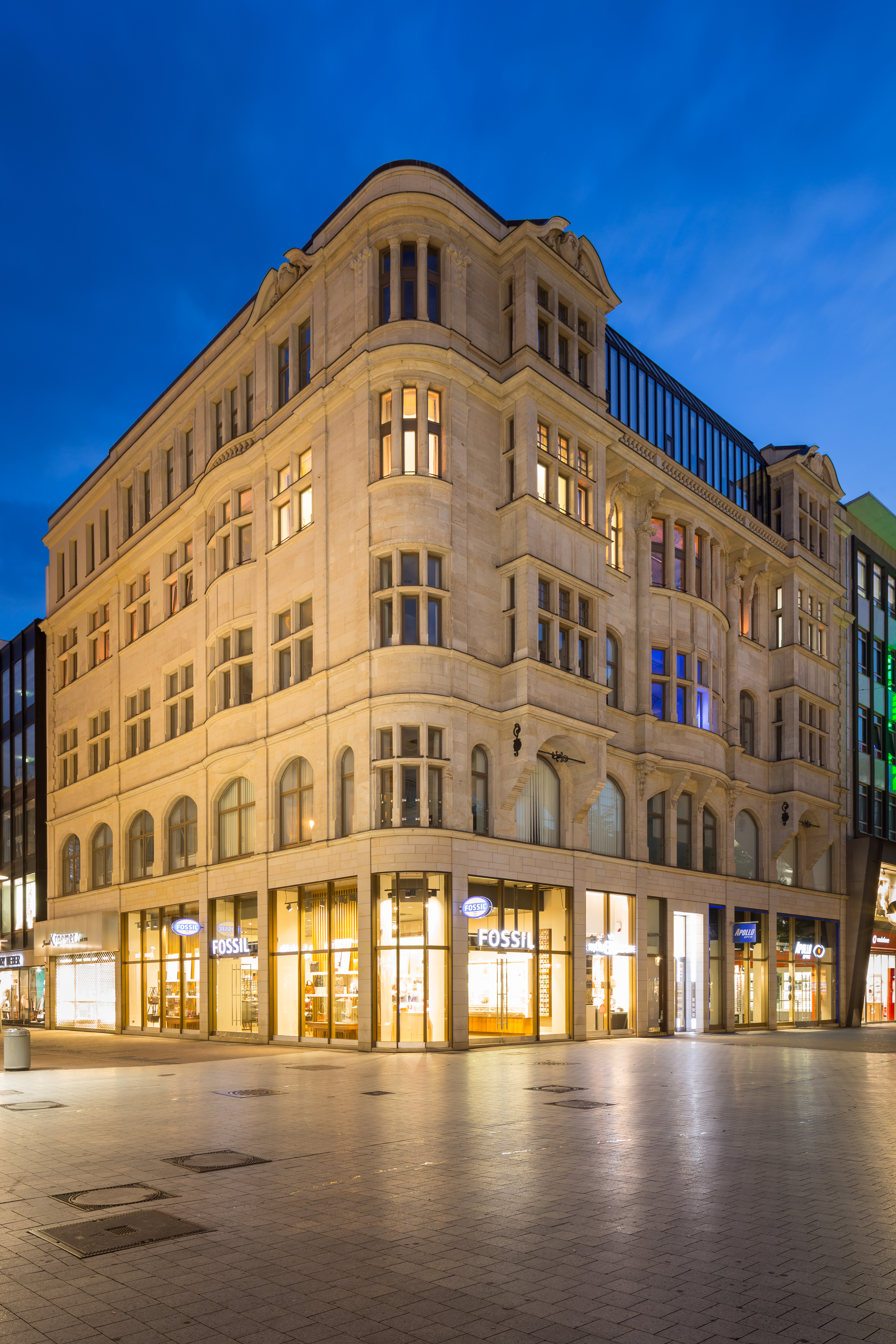 Business house located at Georgstrasse no. 22 in Mitte quarter of Hannover, Germany.